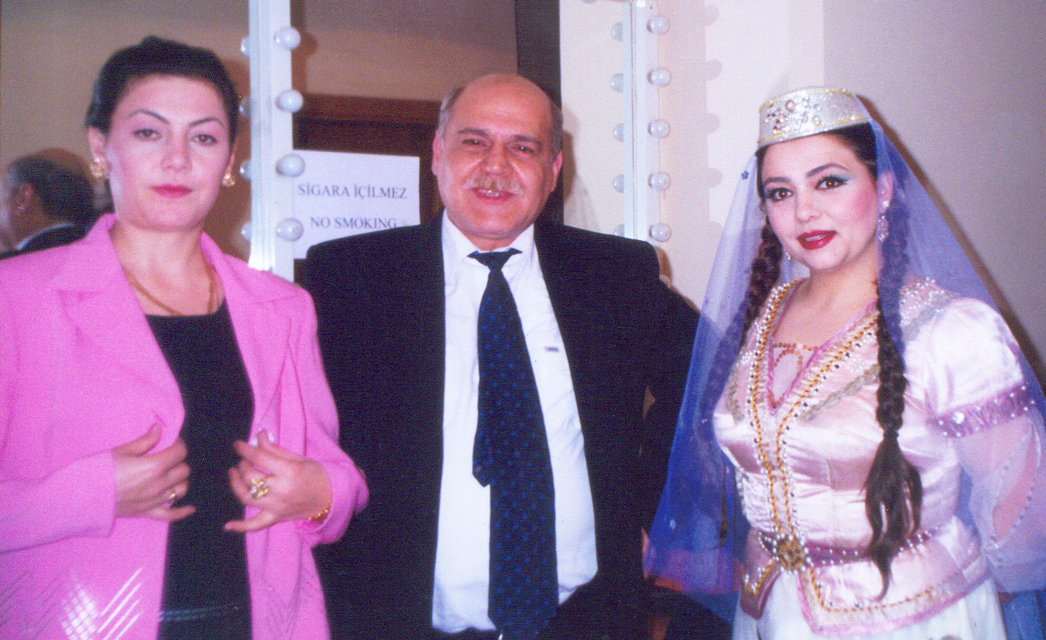 Elkhan Mansurov, Gulustan Aliyeva, Nezaket Teymurova. 2001, Istanbul.